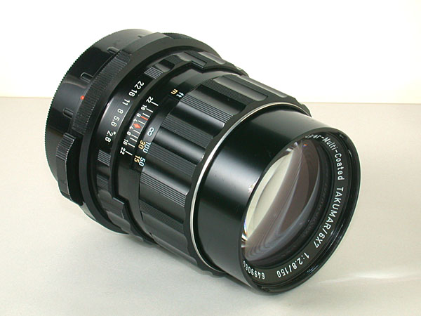 SMC Takumar6x7 150mmF2.8